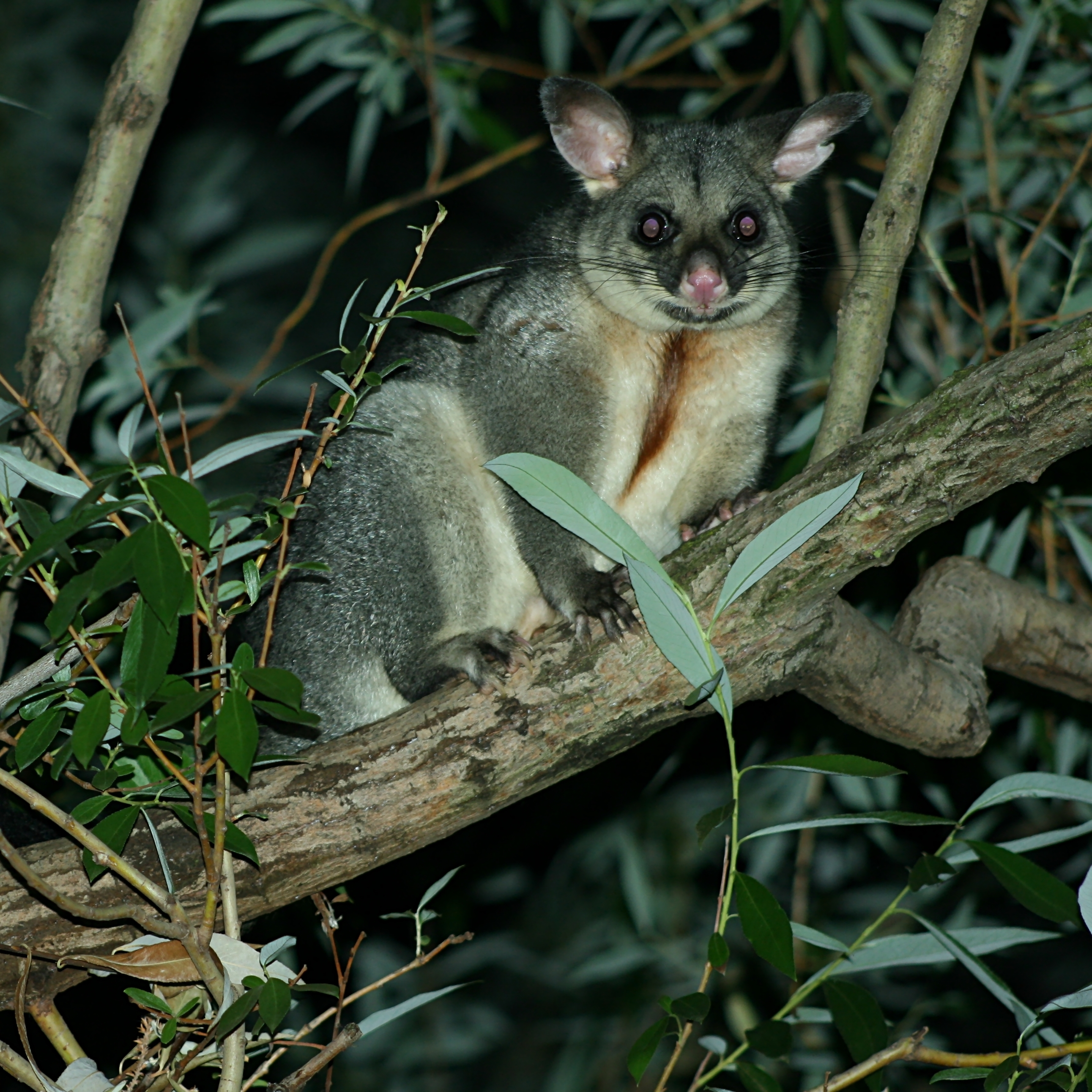 Brushtail Possum (trichosurus vulpecula) in a tree at the Australian National University in Canberra, Australian Capital Territory, Australia.